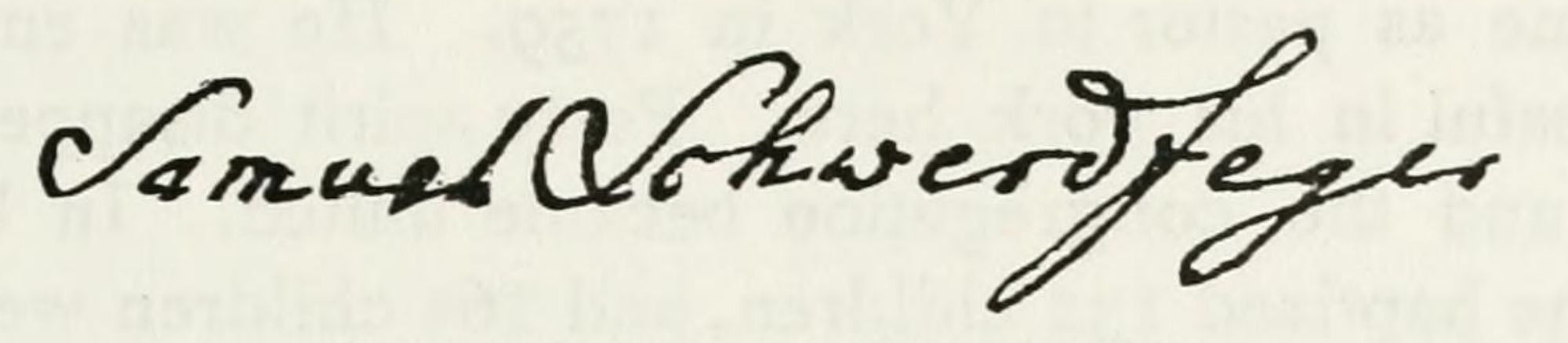 Signature of Johann Samuel Schwerdtfeger (1734-1803), German-born Lutheran cleric credited with being the first Lutheran pastor in Upper Canada.